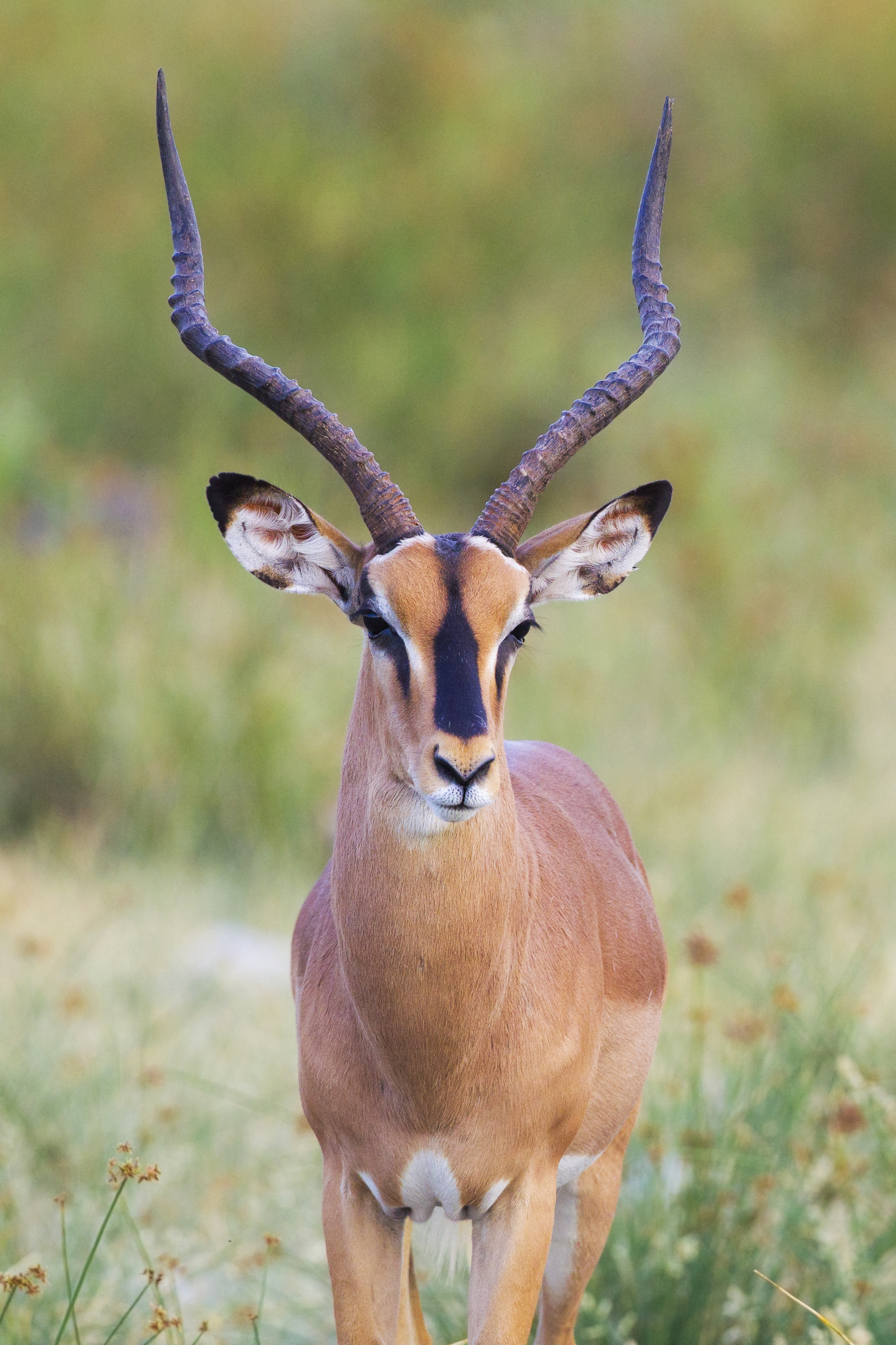 Black-faced impala (Aepyceros melampus petersi) from Etosha National Park, Namibia